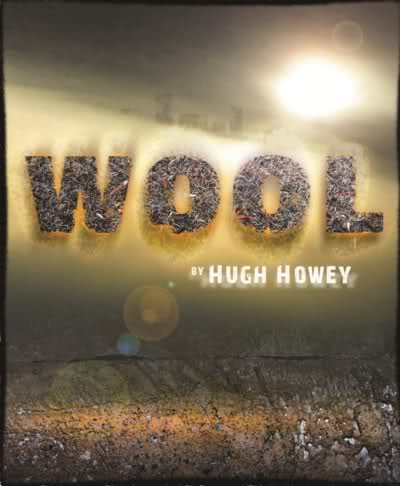 Cover for Hugh. C. Howey's Wool Omnibus